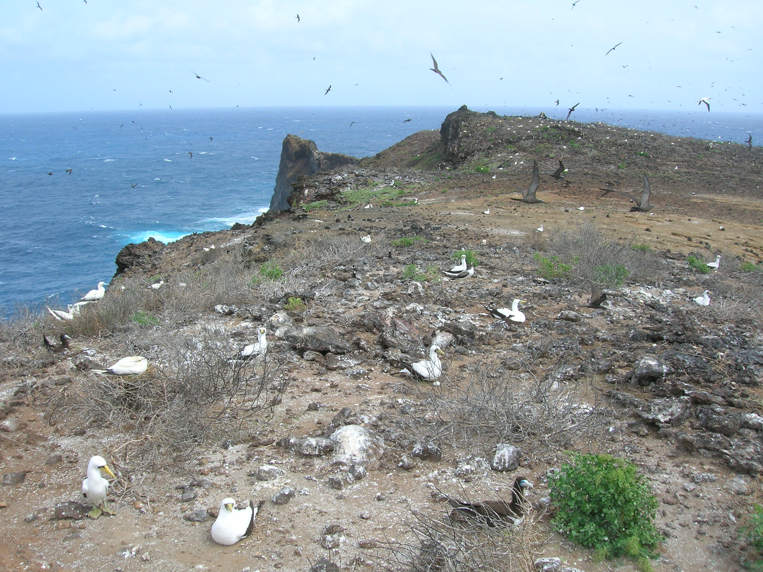 Chenopodium oahuense (habit with masked boobies). Location: Oahu, Moku Manu